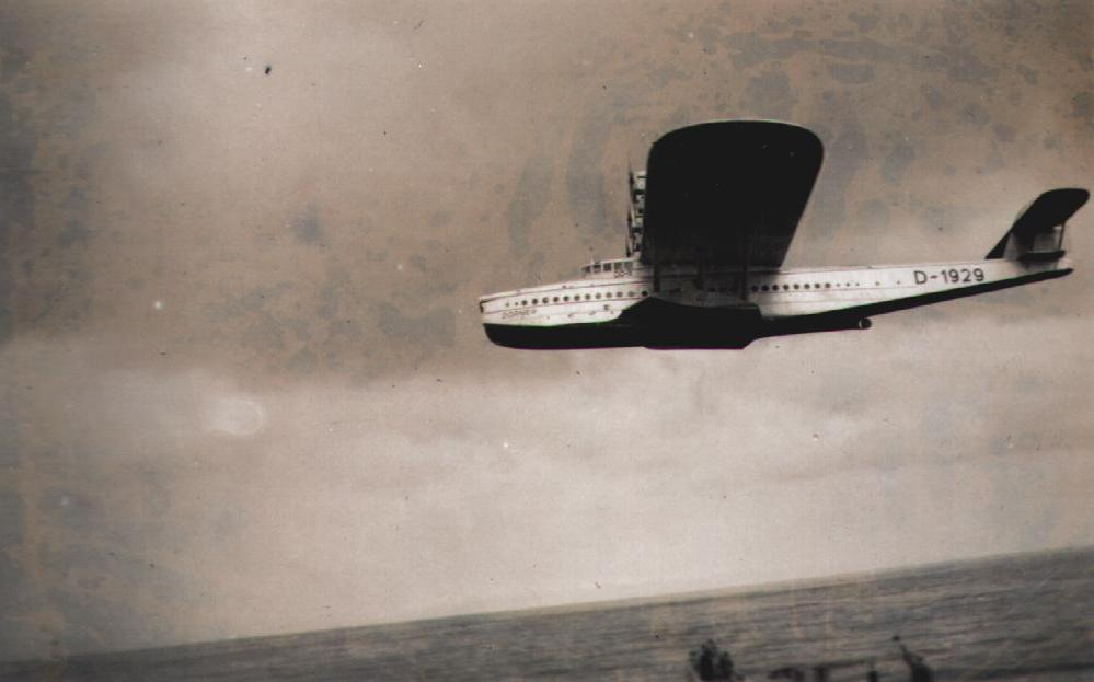 Dornier Do-X flyby over a seaport town in the Balticum 1930